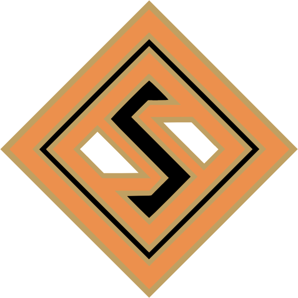 Historical logo of Gelb-Weiß Görlitz.